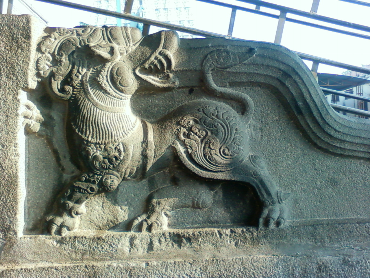 A yali sculpted on the side wall of steps found in Annamalaiyar temple, Tiruvannamalai.l